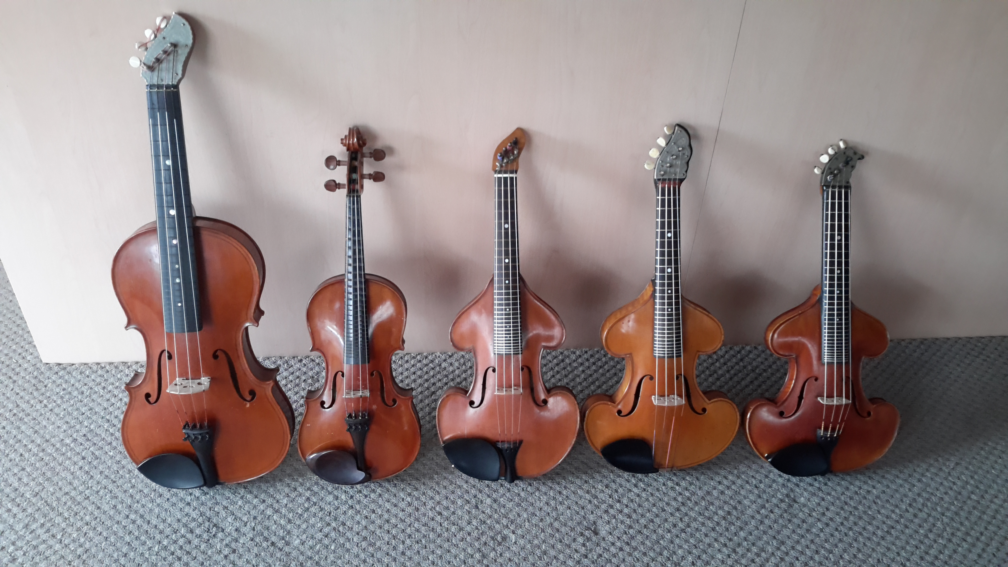 Four 120 year old tenor violins with a fullsize violin 2nd from left for size reference. All four tenor tenor violins are German made and all show variations in body size and fingerboard/ tailpiece length.